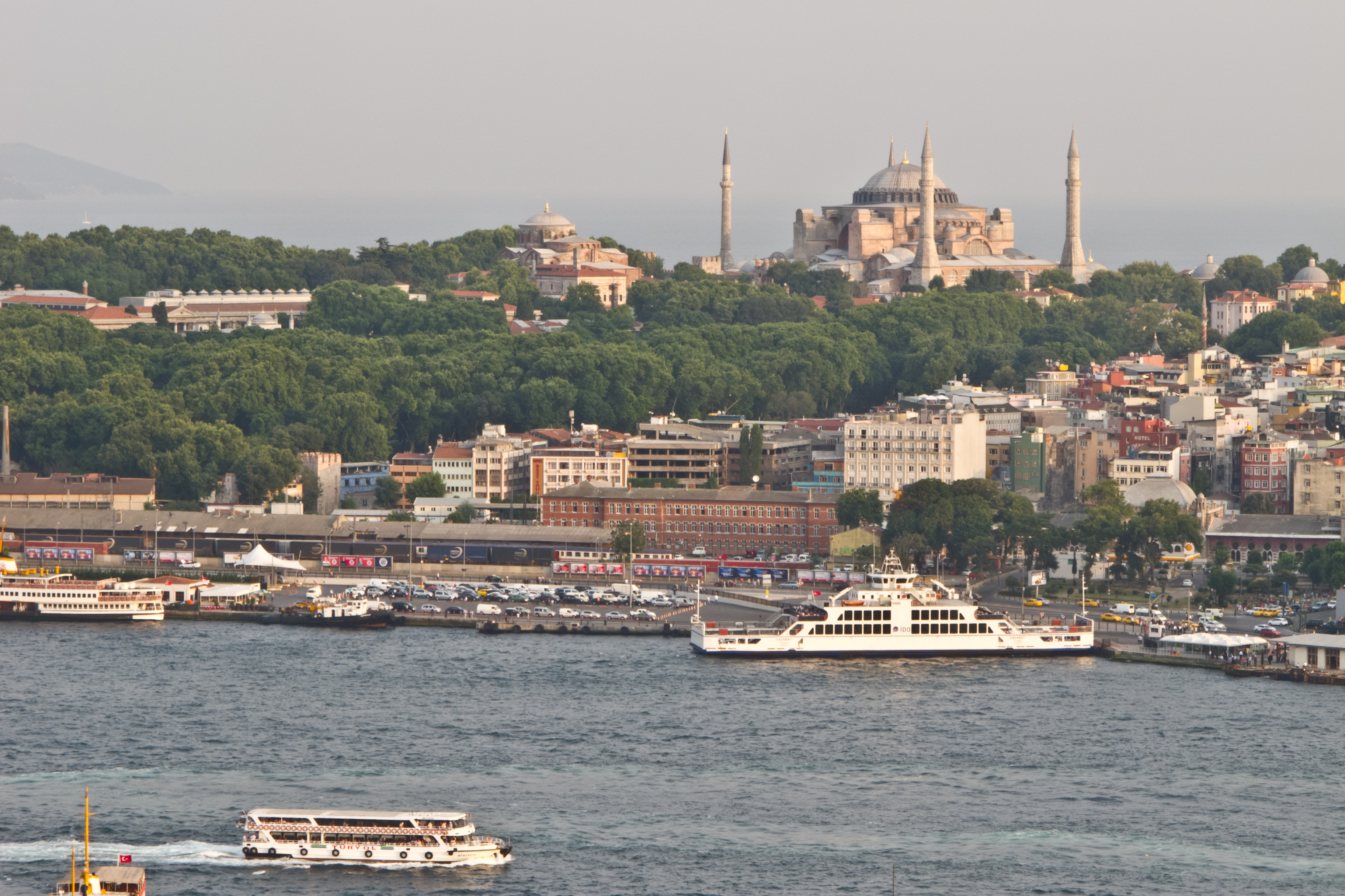 Haghia Sophia and part of Topkapı Palace, Istanbul, Turkey.